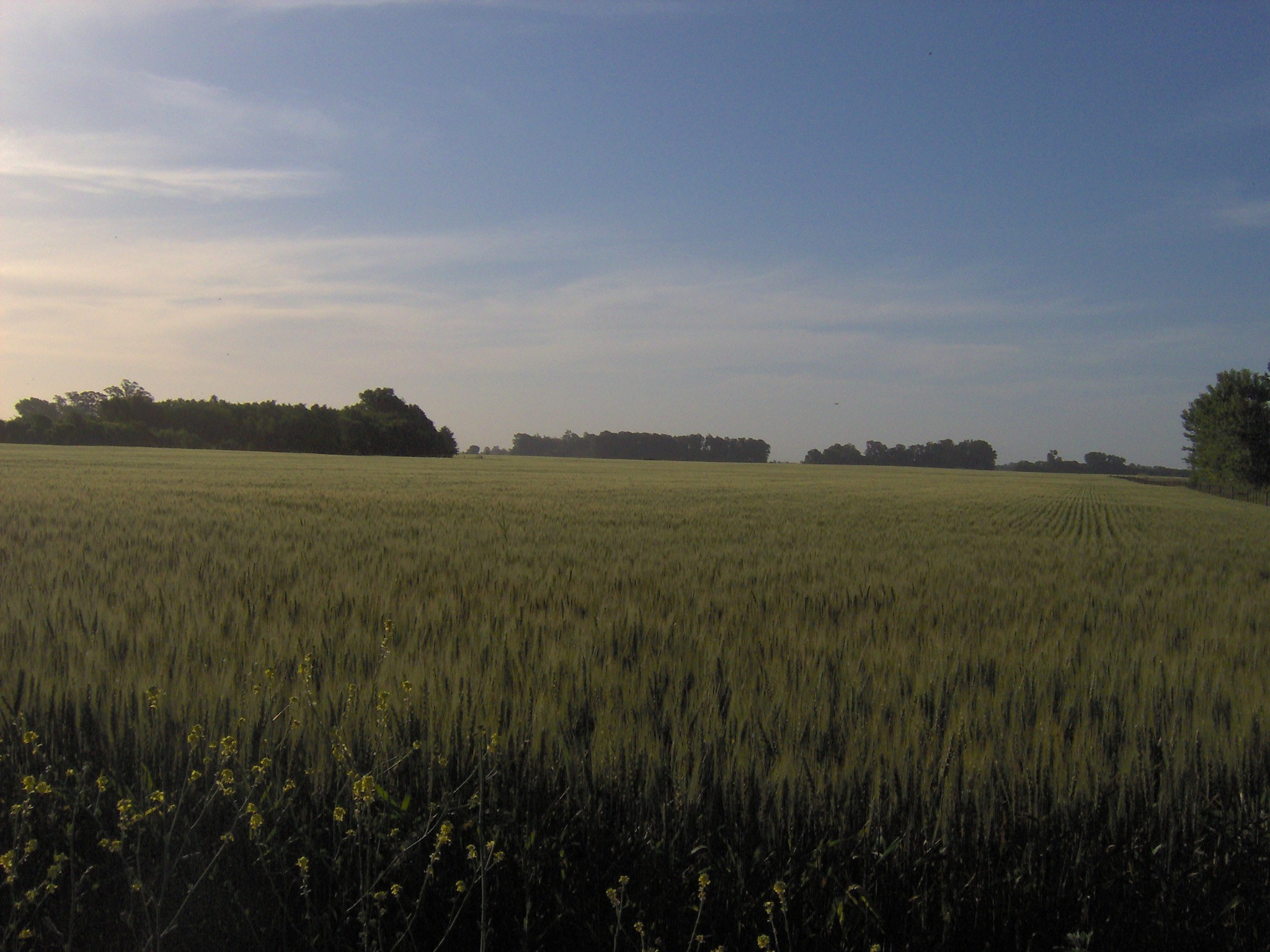 Cropfield of barley in Los Toldos, Argentina